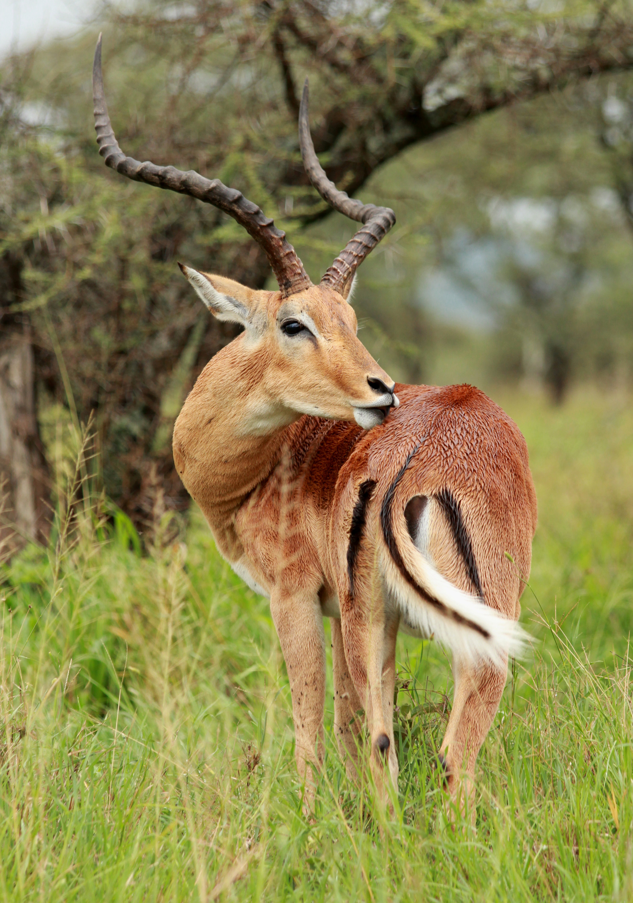 An impala at the Serengeti National Park.